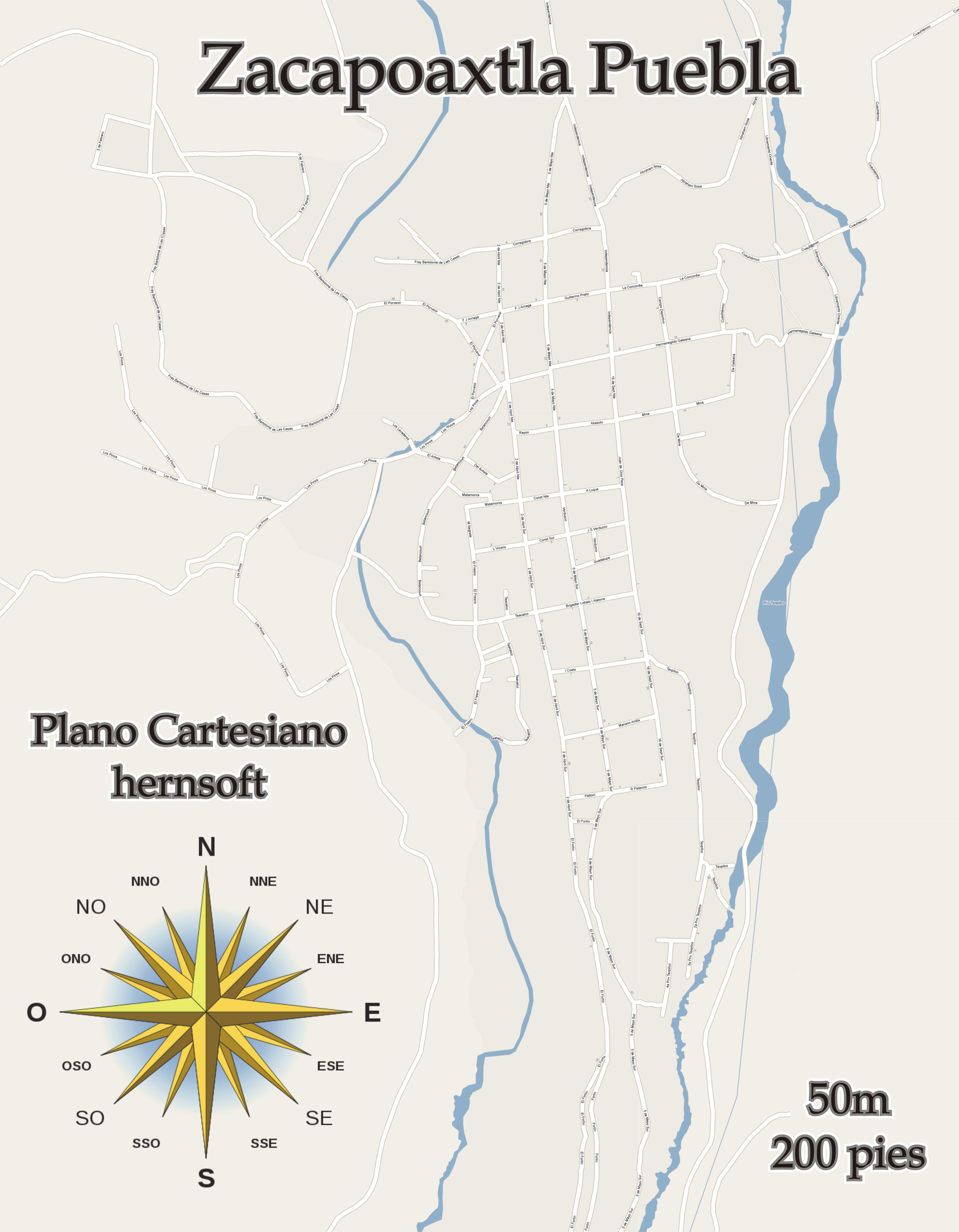 Mapa de zacapoaxtla